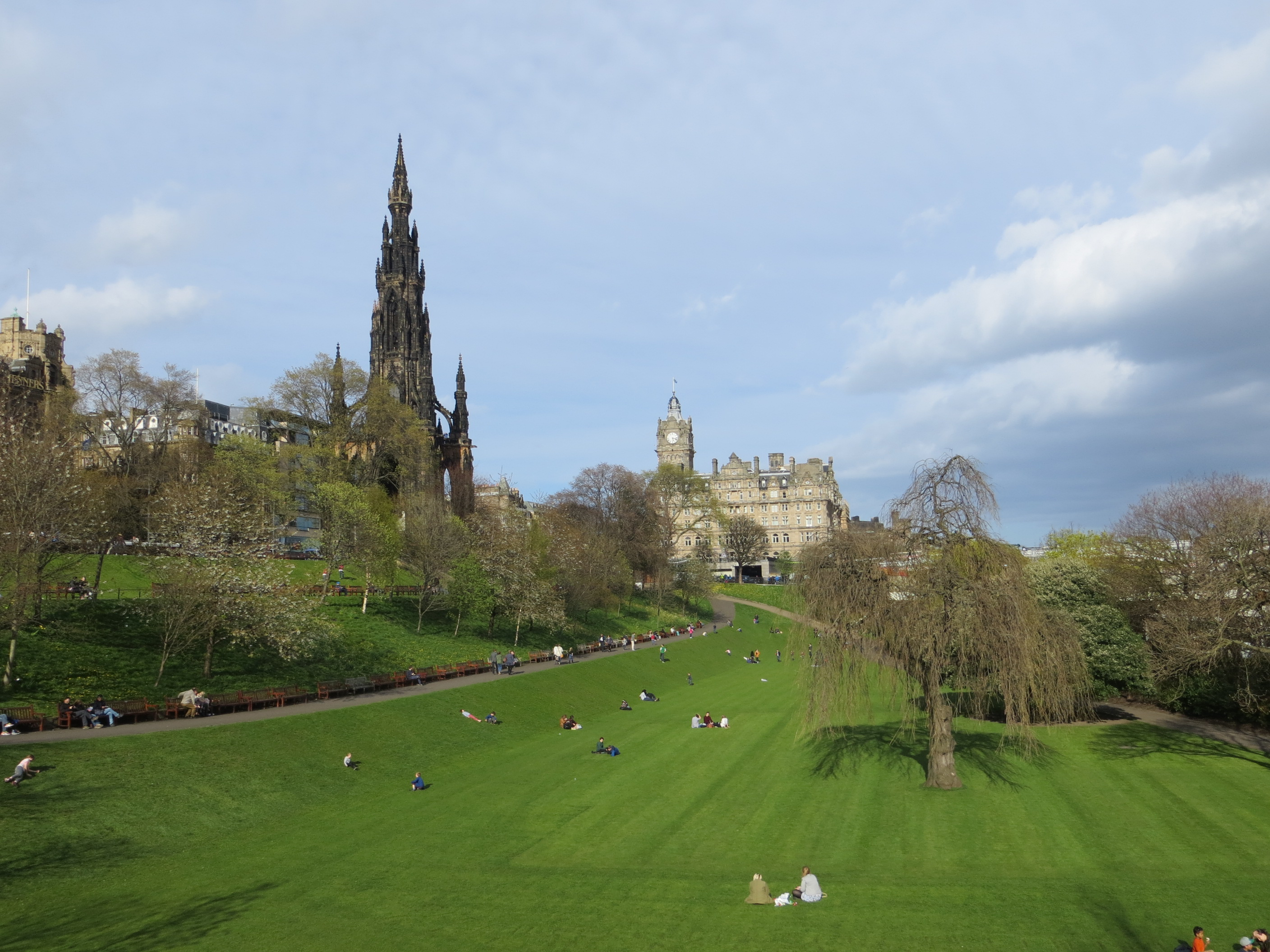 folks enjoying the nice weather when they can